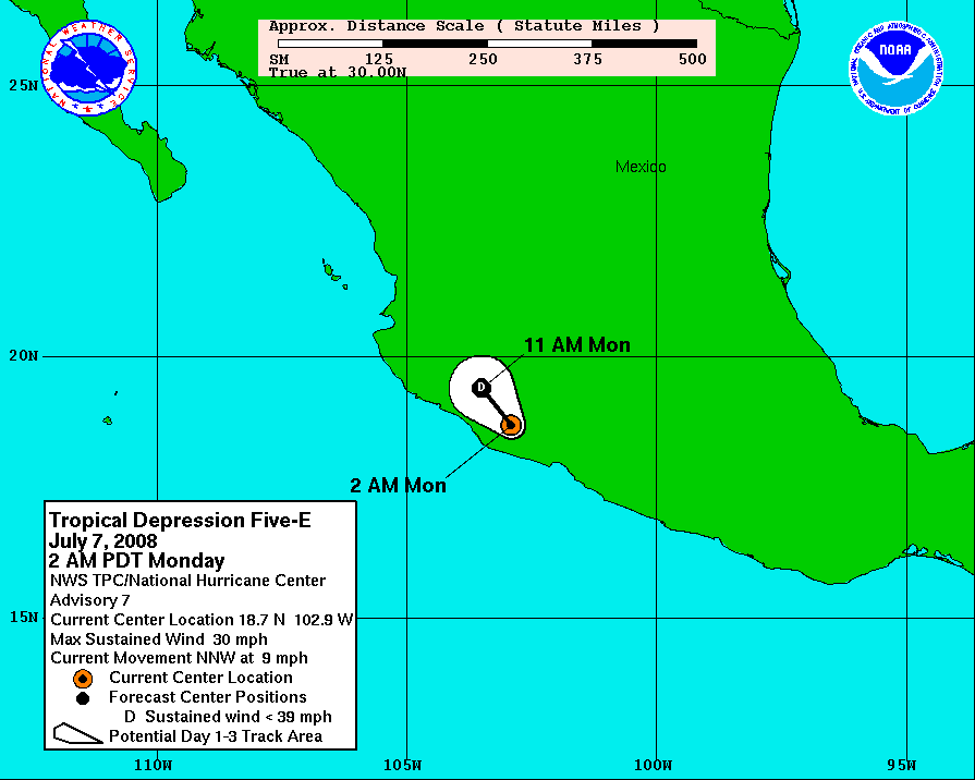 Forecast map of tropical cyclone 05E, in the Eastern Pacific ocean.